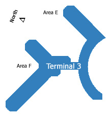 Blue colored diagram of the left side of the airport showing the labeled spokes